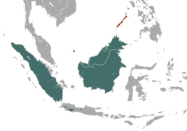 Composite of specific distributions of the two stink badger species.